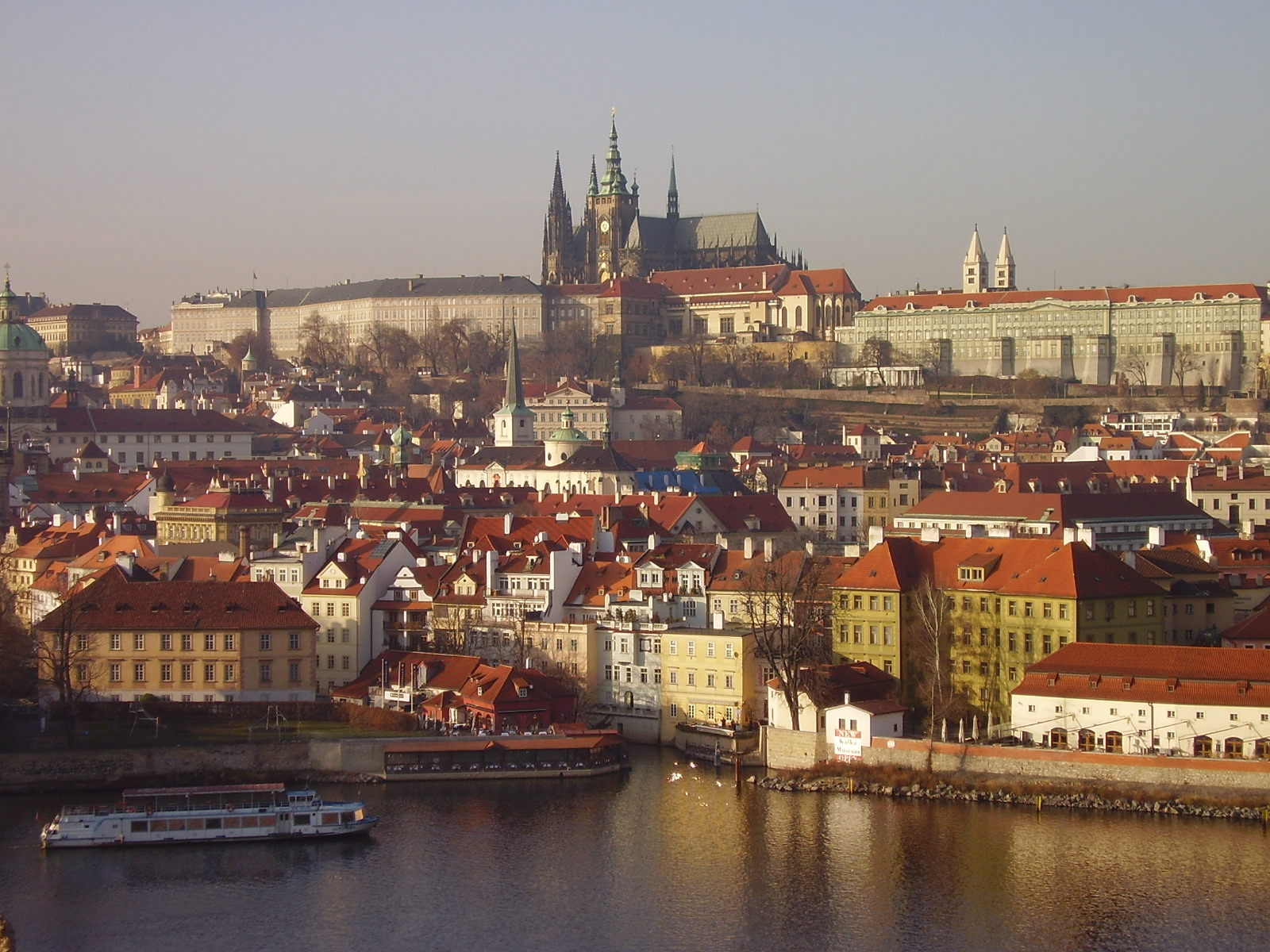 Prague november 2006